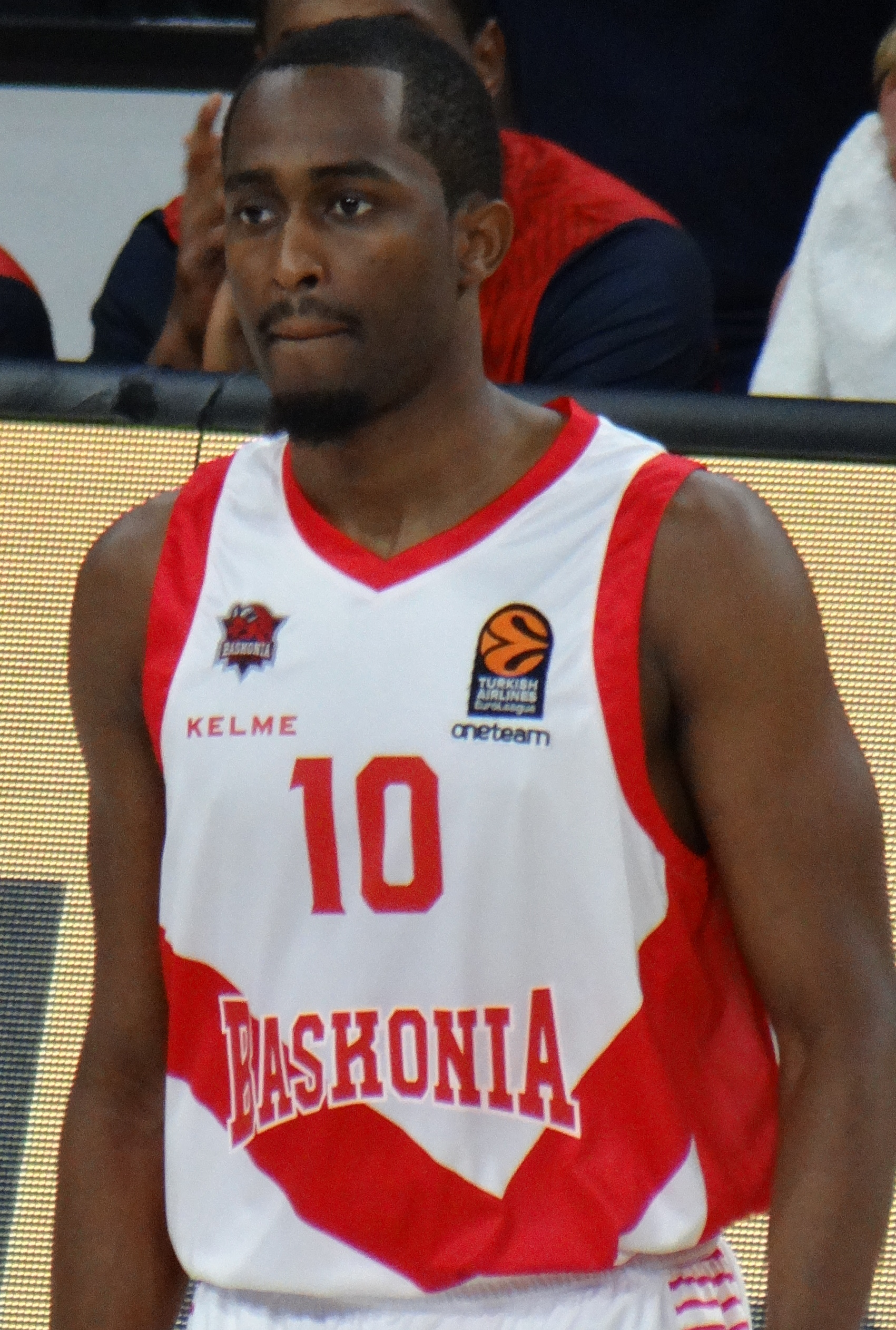 Rodrigue Beaubois 10 - Saski Baskonia 20171215